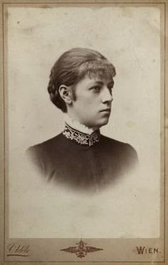 Countess Marie Larisch von Moennich